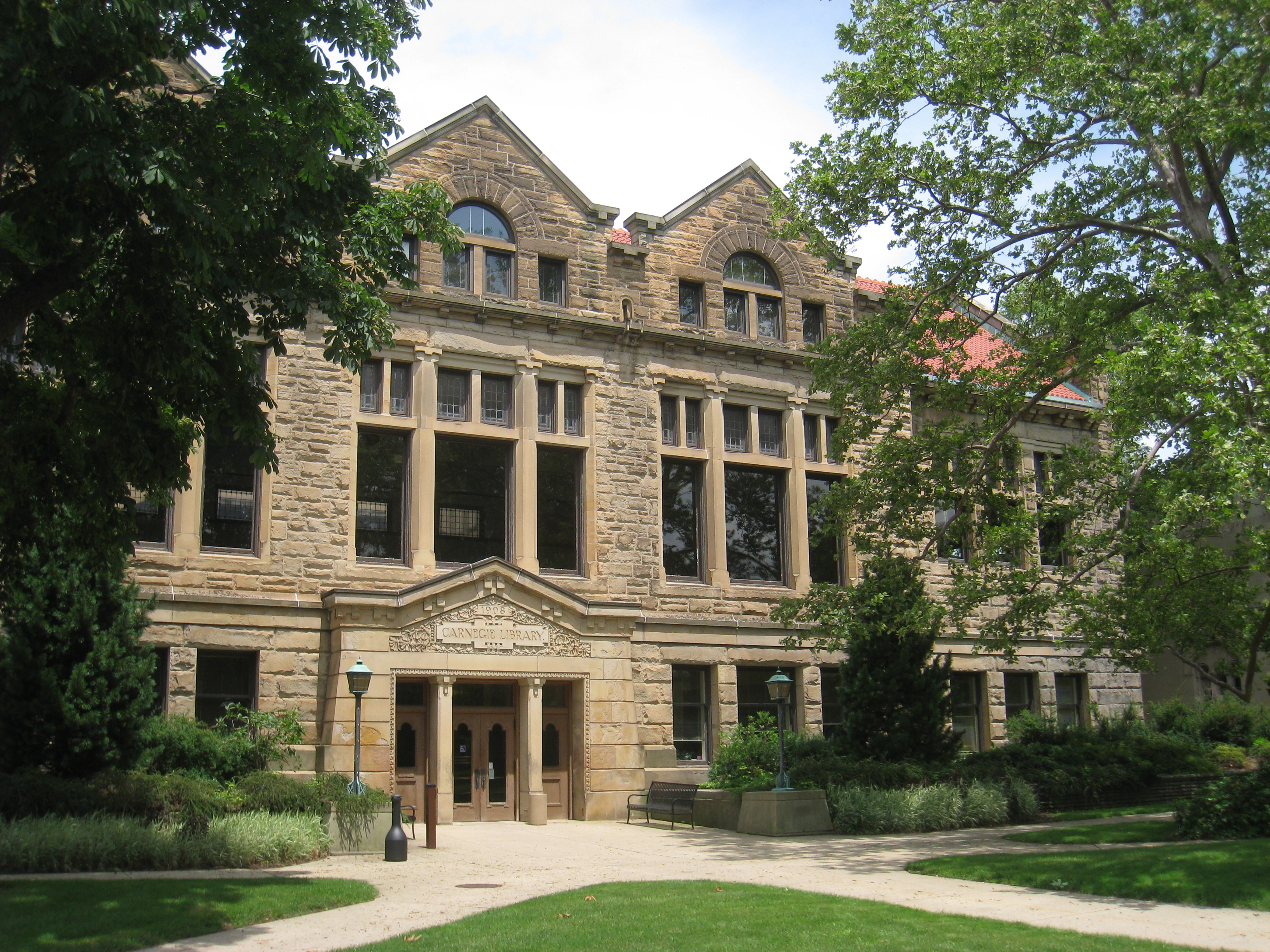 Carnegie Building, Oberlin College, Oberlin, Ohio, USA. Architect Normand Patton, 1908.